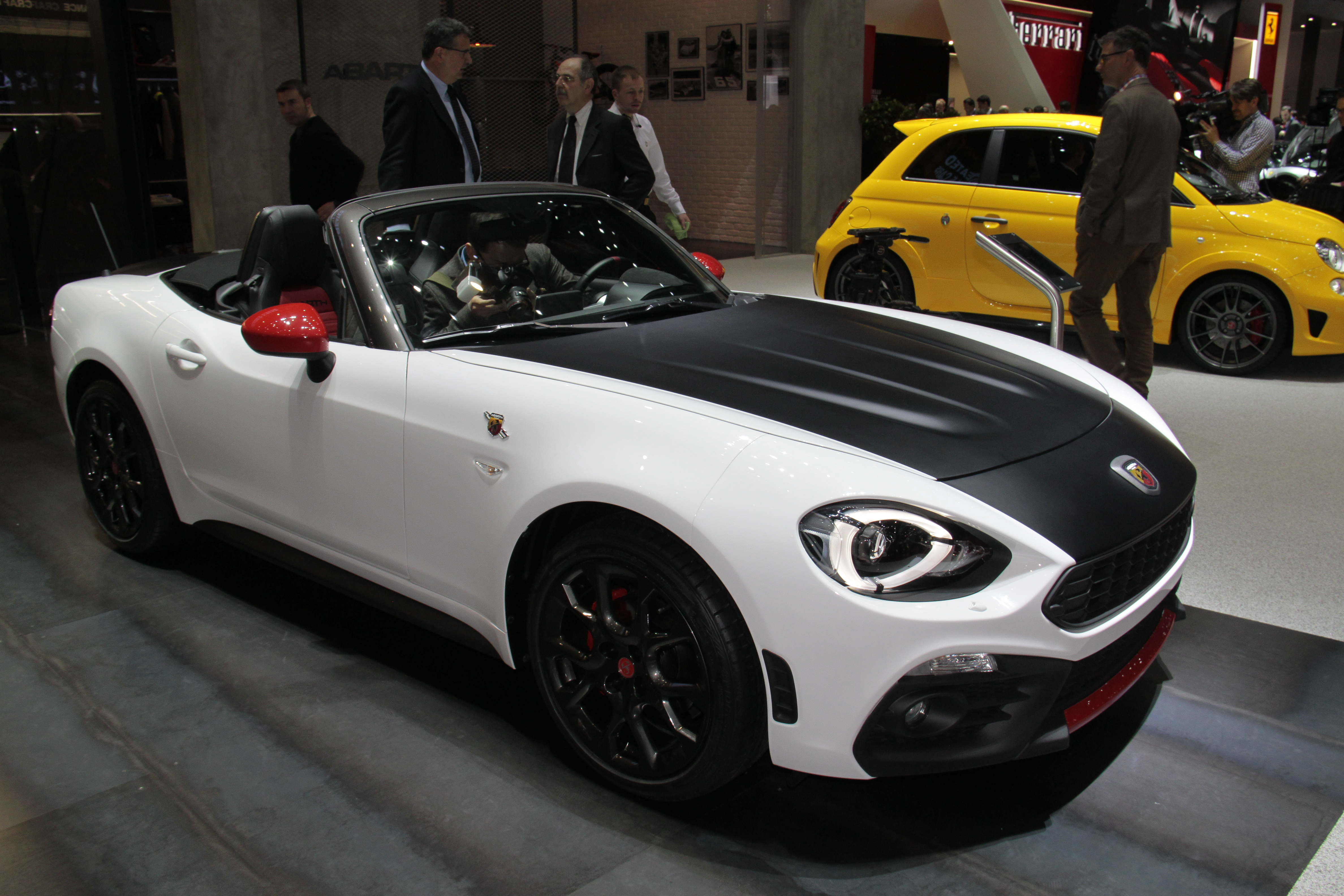 Abarth 124 Spider at the 2016 Geneva Motor Show